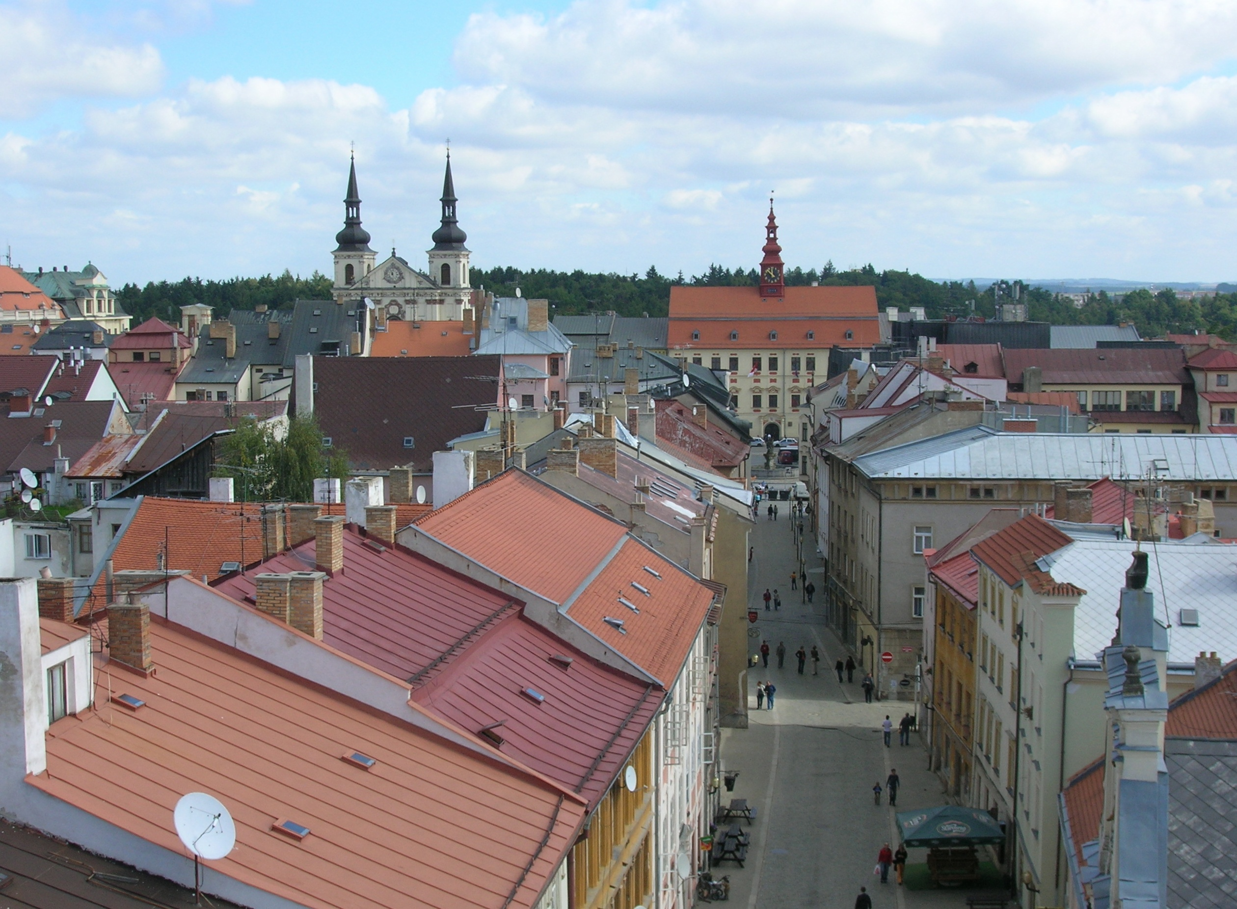 Jihlava. Matky Boží Street